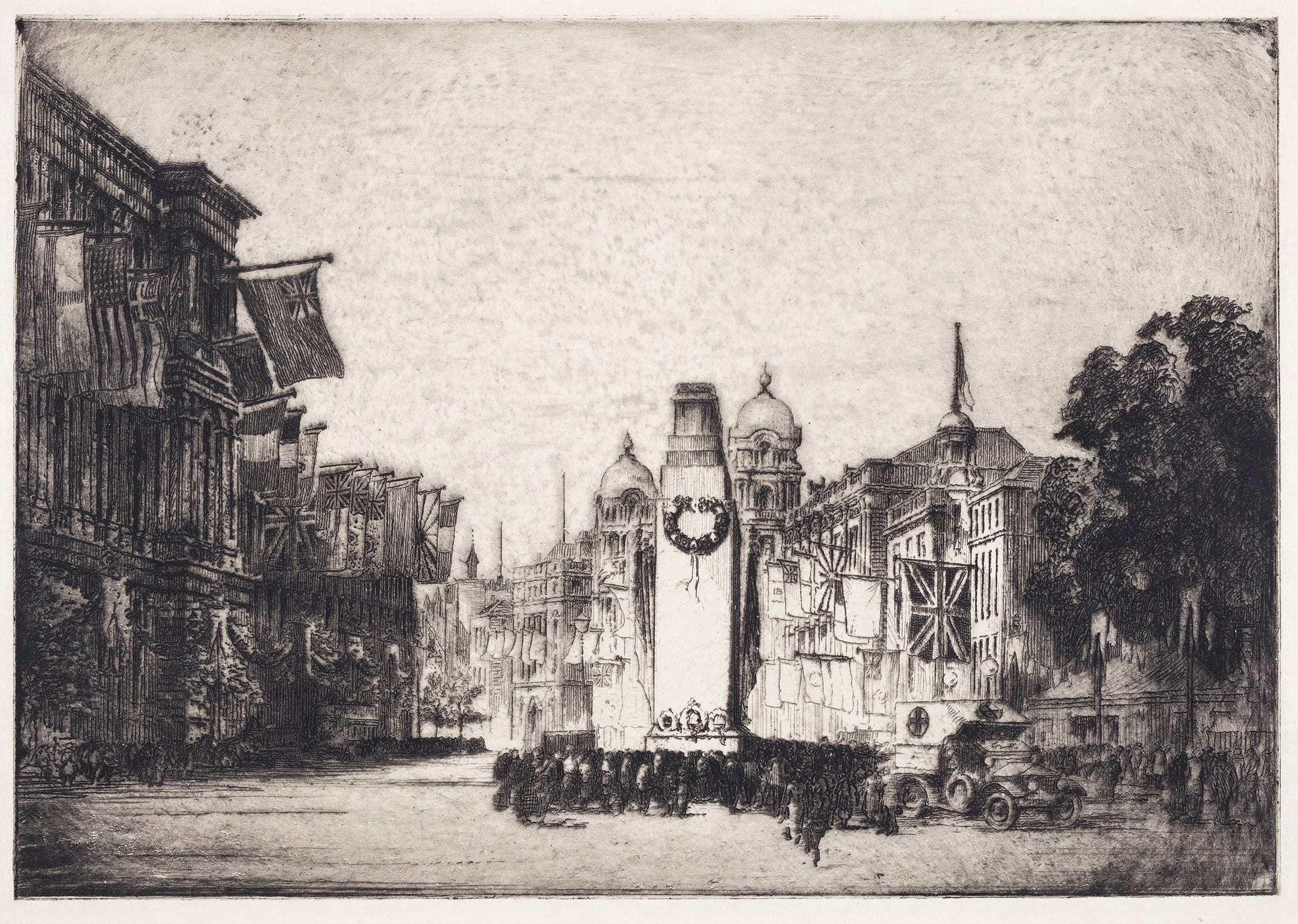 Offered for sale in November 2019 by Abbott and Holder, when it was described as "MONK William R.E. (1863-1937) The Temporary Cenotaph, Whitehall. Etching printed in an edition of about 100 in ‘Monk’s Calendar’, for 1920, and showing the wood and plaster monument erected for the Peace Celebrations on 19th July 1919. The permanent cenotaph was unveiled on 11th November, 1920. Ex. Coll: Dr Alan Borg. 6.75x10 inches."